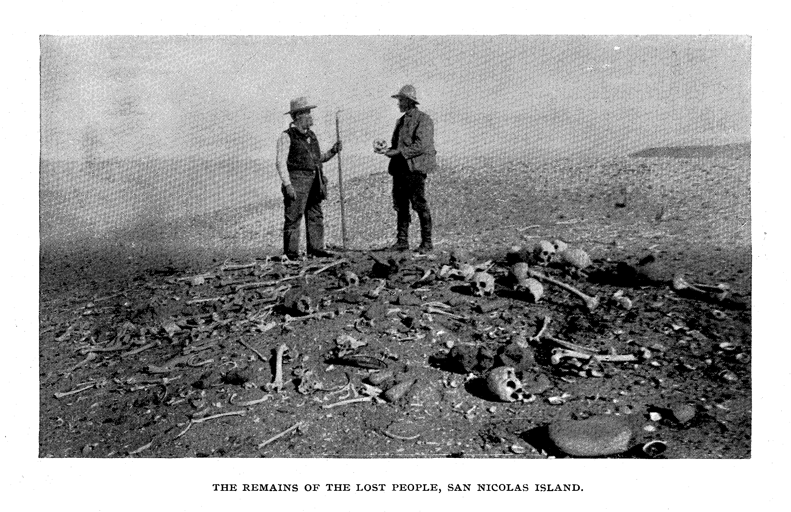 Images of Nicoleño sites on San Nicolas Island From "The Deserted Homes of a Lost People: The Santa Barbara Channel Islands" from the May 1896 version of Overland Monthly. Available at